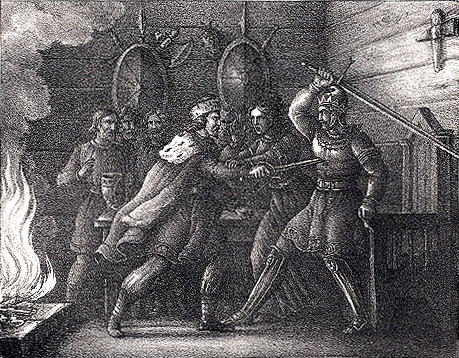 Captioned as "Konung Alf dödar konung Yngve, af svartsjuka, och faller sjelf för sin broders svärd", according to the source page. Etching by Hugo Hamilton, depticting Alf and Yngve slaying eachother. Original image size approximately 17 x 22 cm.